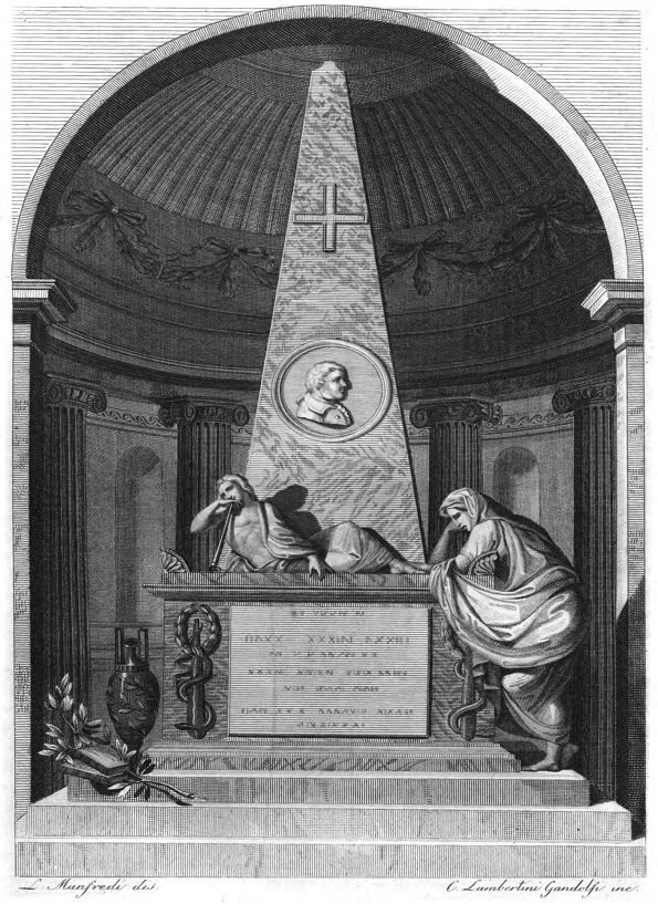 Grave of Carlo Mondini (1729 - 1803), italian anatomist, located in the Certosa of Bologna. Engraving.